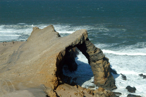 Close-up aerial photo of Bogenfels, a major landmark in the Sperrgebiet south of Lüderitz (Namibia)